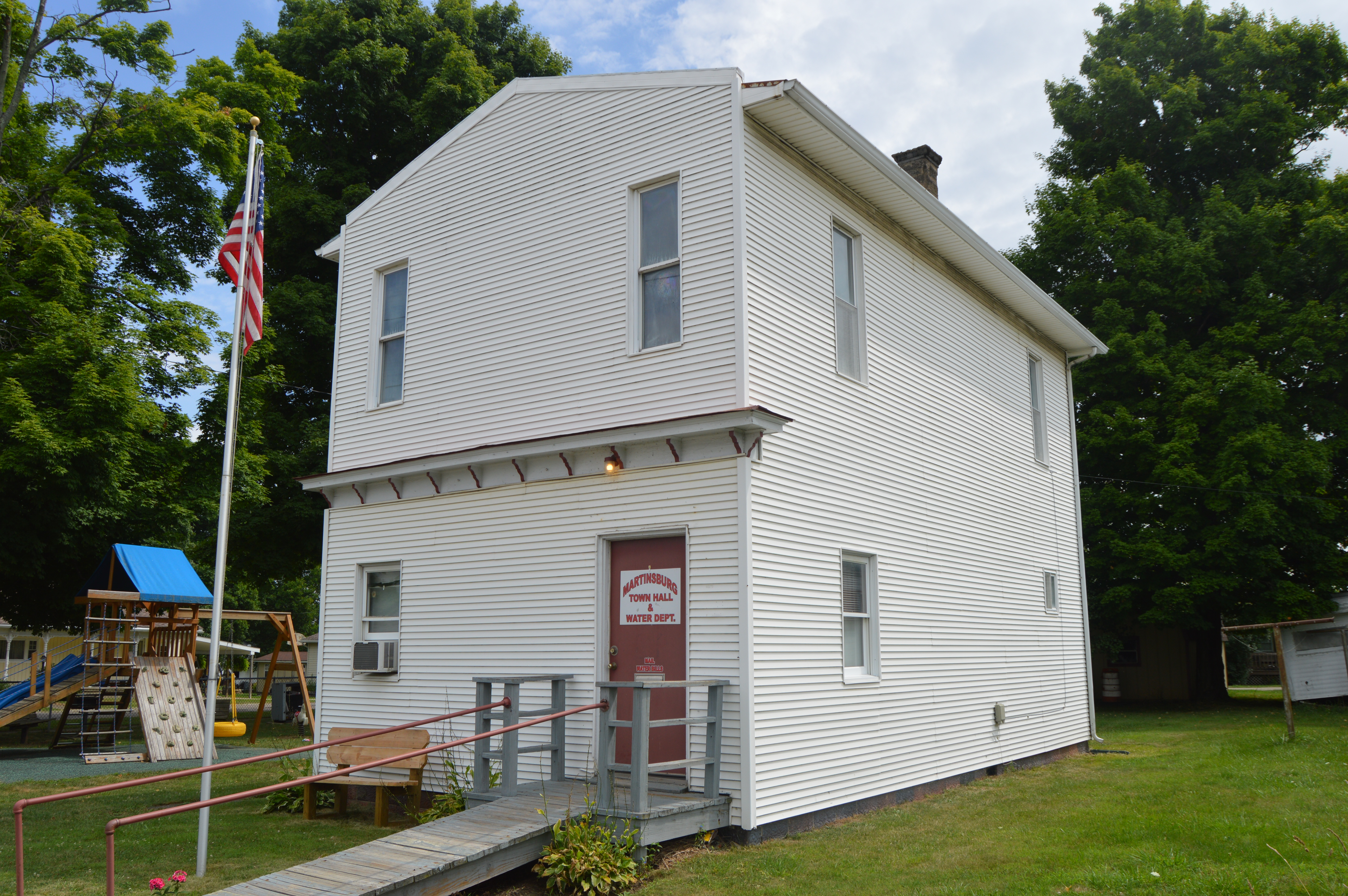 Front and southern side of the village hall in Martinsburg, Ohio, United States, located on Market Street (U.S. Route 62) just south of Pleasant Street.